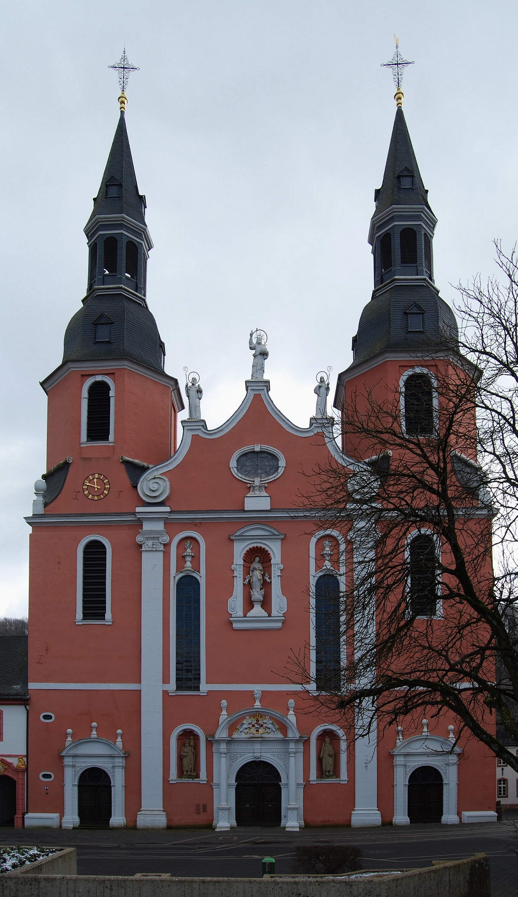 The basilica St. Salvator in Prüm, West Eifel.